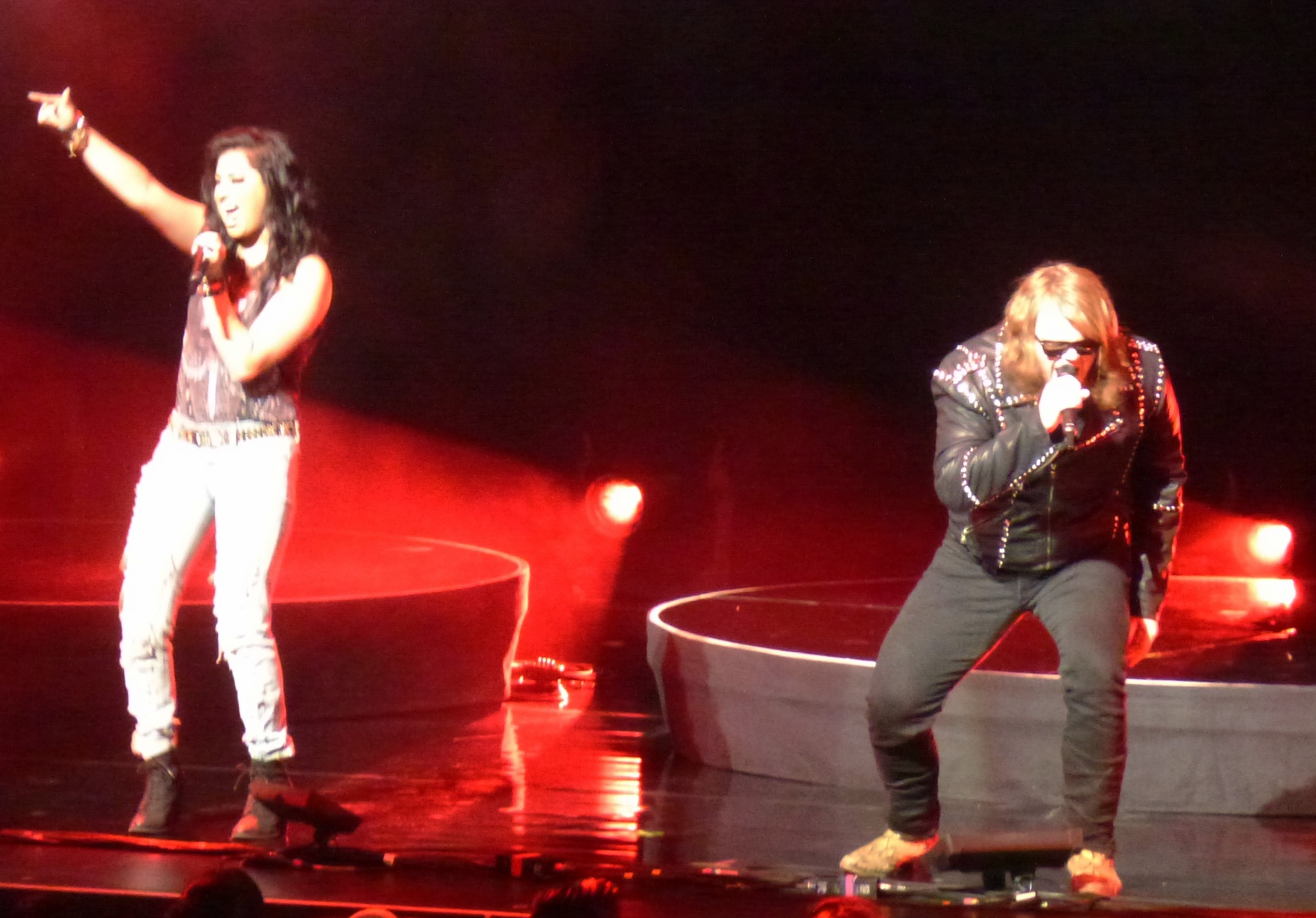 American pop rock singer Jena Irene Asciutto (left) and American rock singer Caleb Johnson (right) performing at Wolf Trap in Vienna, Virginia during the 2014 American Idol summer tour.